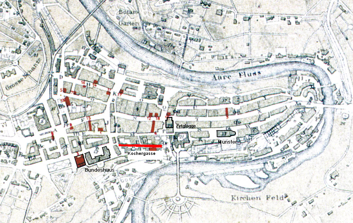 City plan of Bern, 1882. Scanned from BERN: Eine Stadt vor 100 Jahren, Bilder und Berichte; Peter Lauenberger, Emil Erne; München 1997; p. 7. Originally from Bern und seine Umgebungen, C.H. Mann, 1882 in the Alpines Museum of Bern. Due to the age of the image, it must be assumed that the author has been dead for more than 70 years. Copyright protection has therefore lapsed under Swiss copyright law (Art. 29 par. 3 URG).